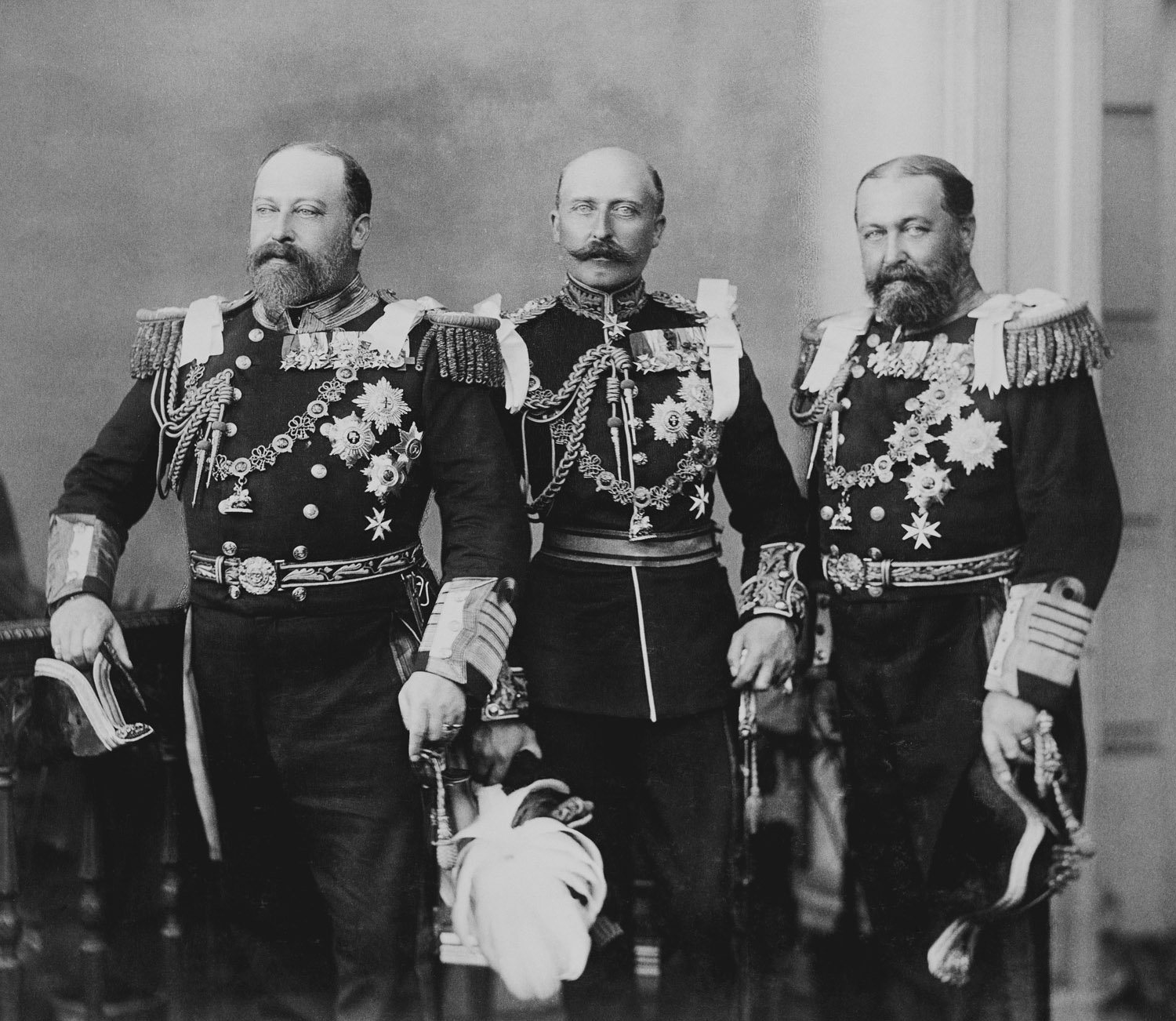 The Prince of Wales and Duke of Connaught and Duke of Edinburgh in Uniform during Royal Wedding of Duke of York (GeorgeV)